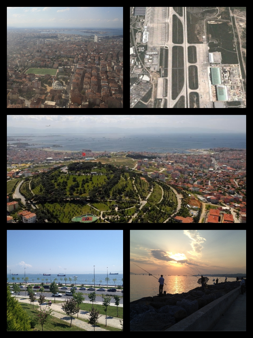 This is a collage about the district Pendik. All the photos -except the upper right one- are from Wikipedia Commons. Upper left: Upper right: My own work. Middle: Lower left: Lower right